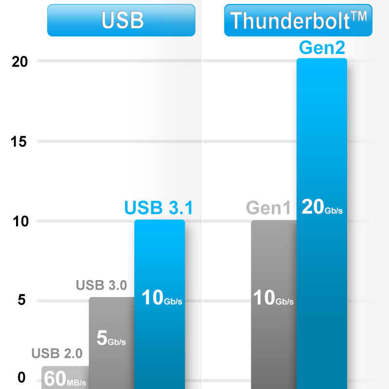 Please be reminded that Thunderbolt 2 is unidirectional